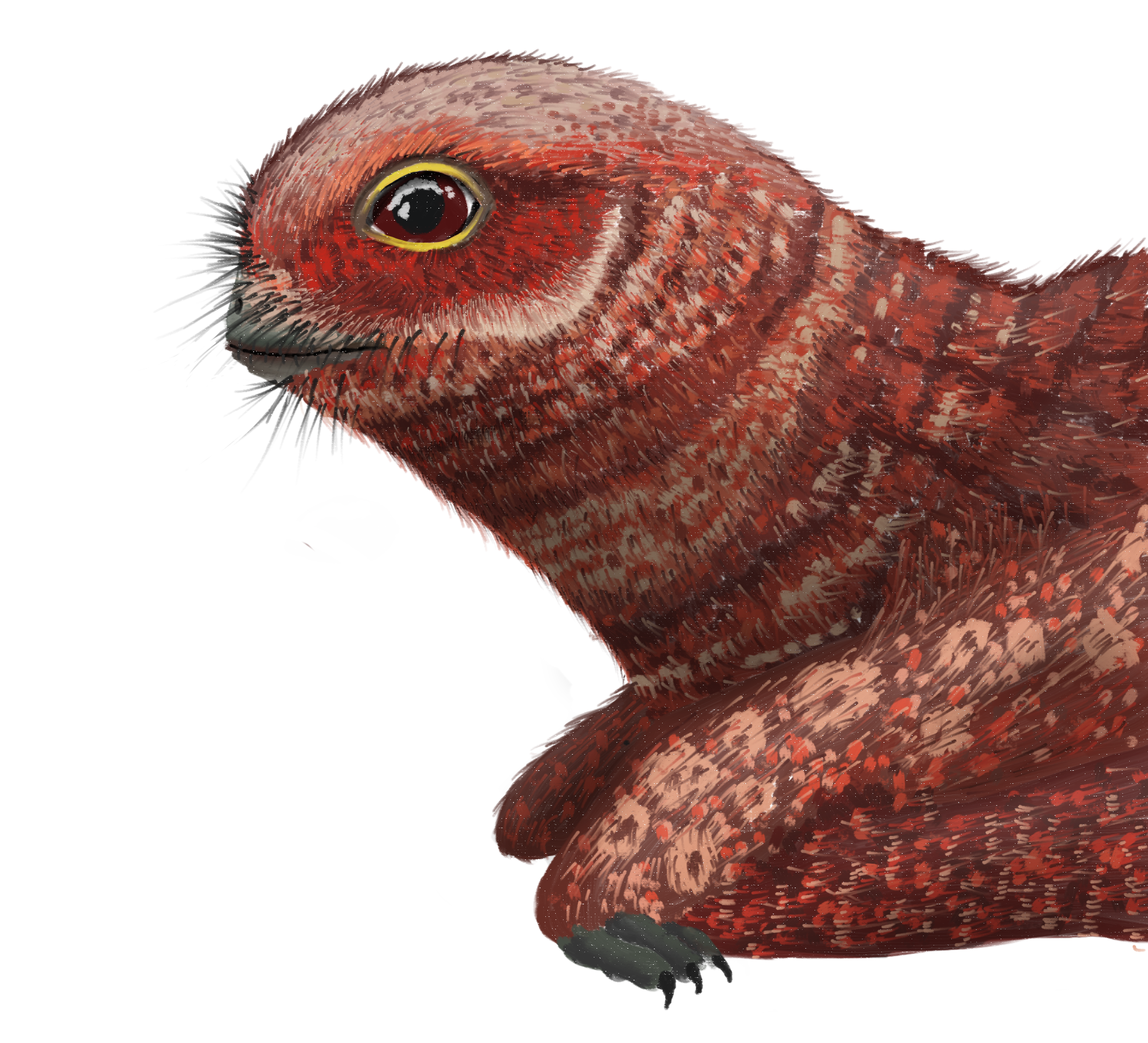 A reconstruction of the unnamed Anurognathid preserved with red filaments, with colours according to Yang et al, 2018. (Titled Jeholopterus in error.)